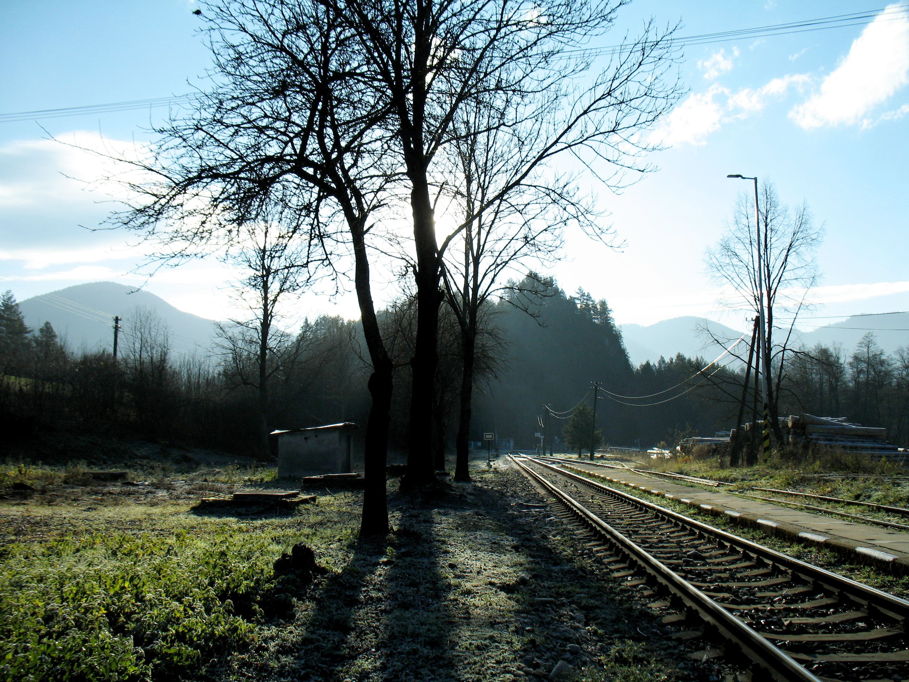 Natural monument Turská skala, Žilina District, Slovakia